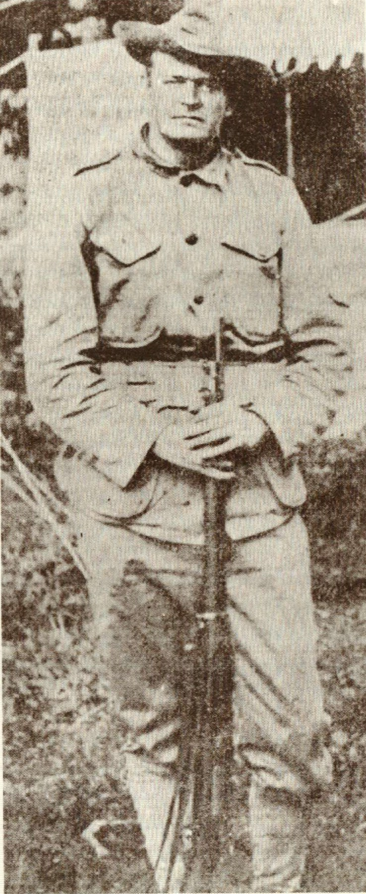 Maurice W. Parker, Sr. at rifle range.